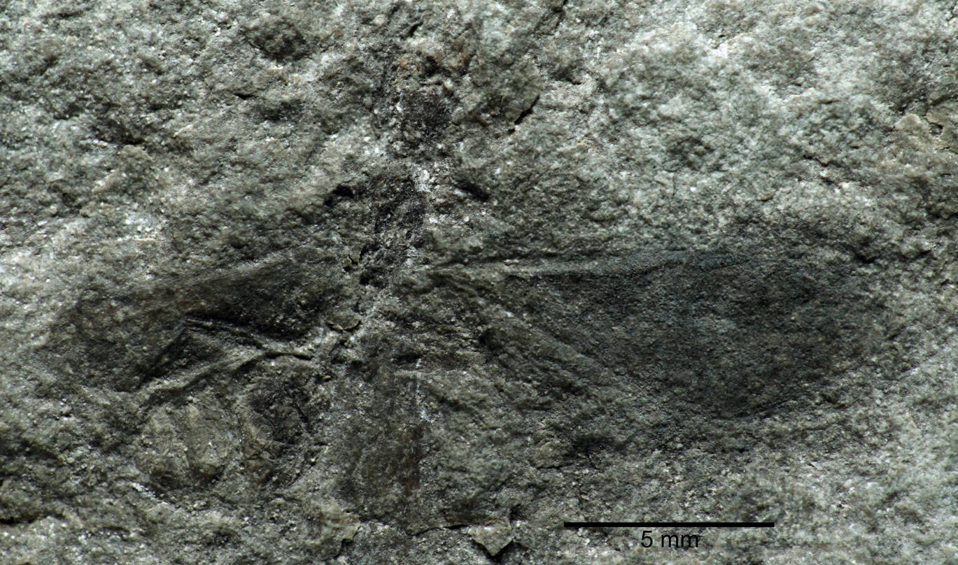 Dorsal view of a Paraphaenogaster tertiaria queen, (Synonym Myrmica tertiaria Heer, 1849). Universalmuseum Joanneum Graz specimen UMJ77624. Universalmuseum Joanneum Graz, Styria, Austria. Burdigalian; Radoboj deposits; Radoboj area, Krapinsko-Zagorska, Croatia.